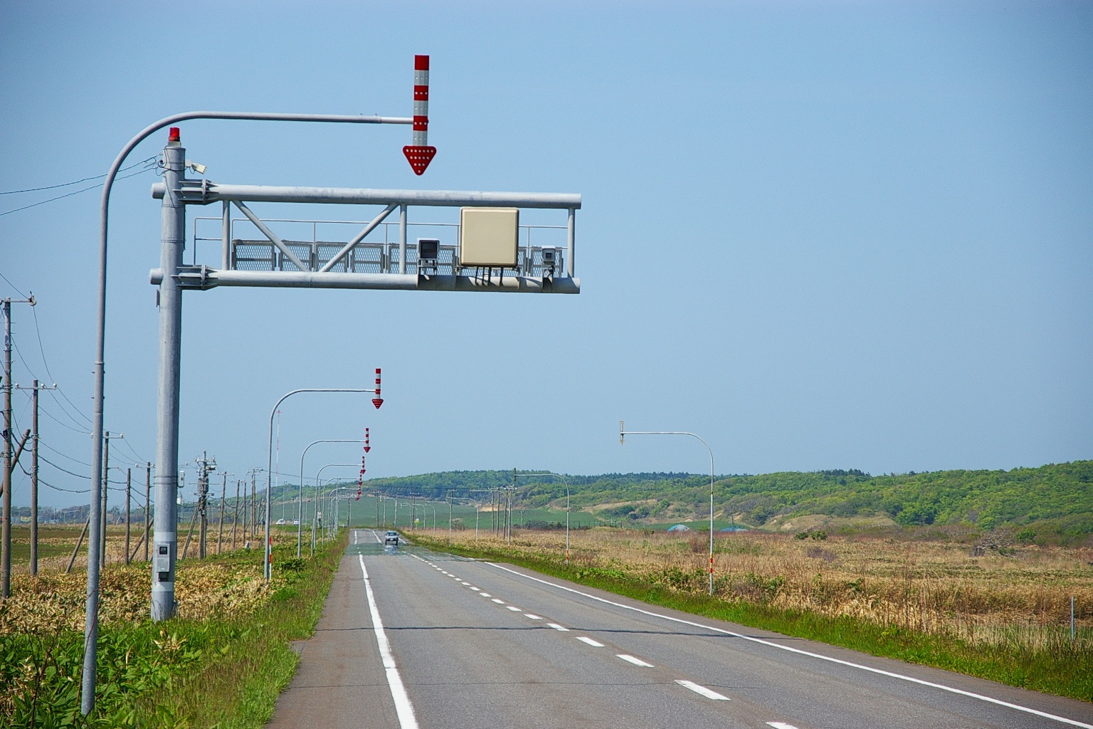 Speeding automatic control unit "H System"